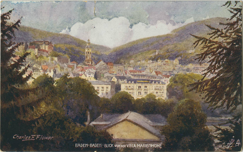 Series " Baden-Baden " 675B. Oilette postcard view from the Villa Marienhohe in Baden-Baden.